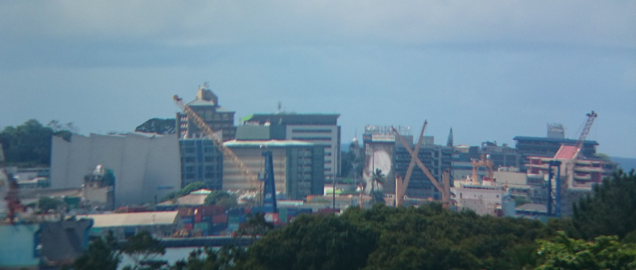 Suva as seen from the suburb of Delanivesi situated north of the city.